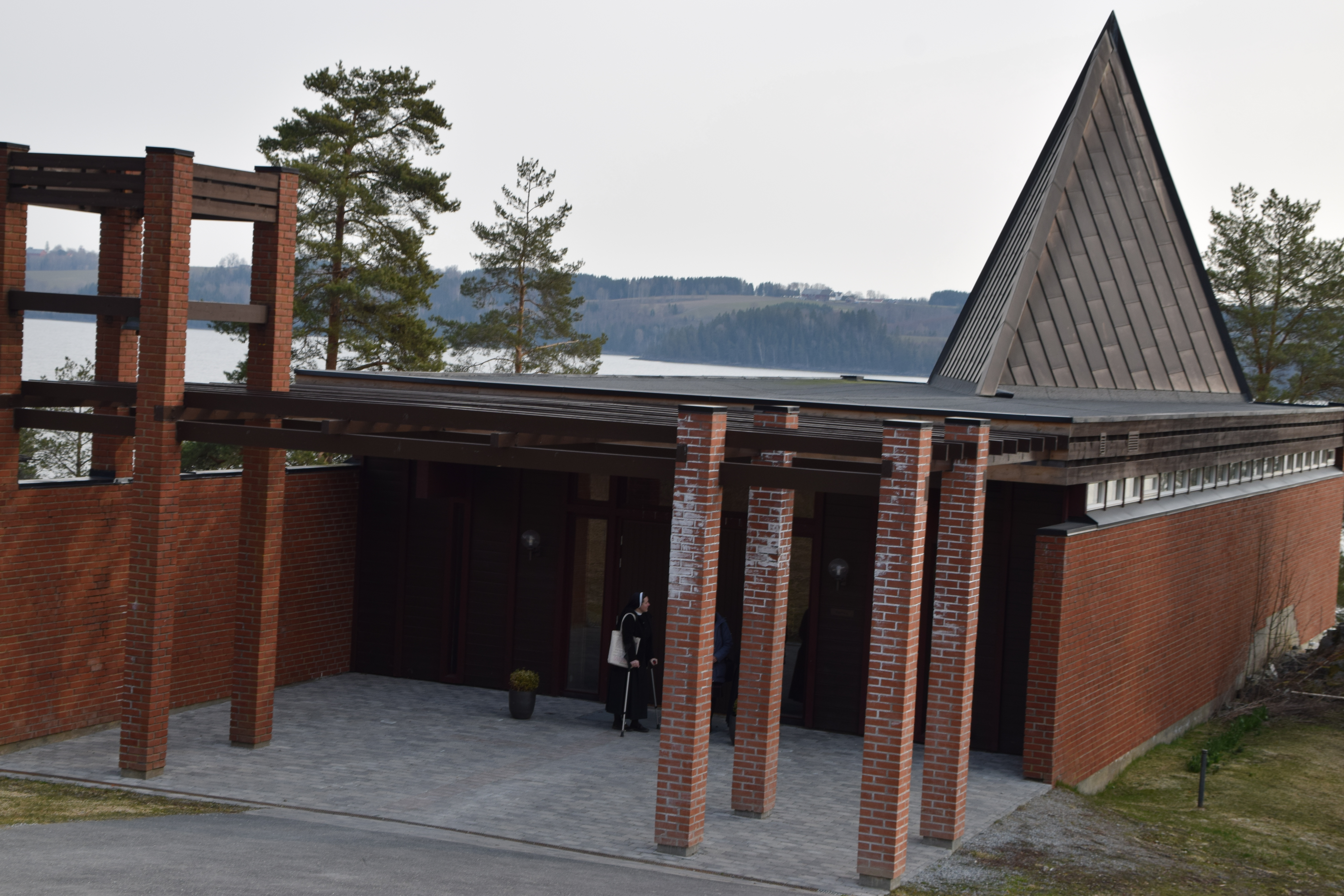 Buildings belonging to the Mariaholm congres center in Østfold county in Norway.